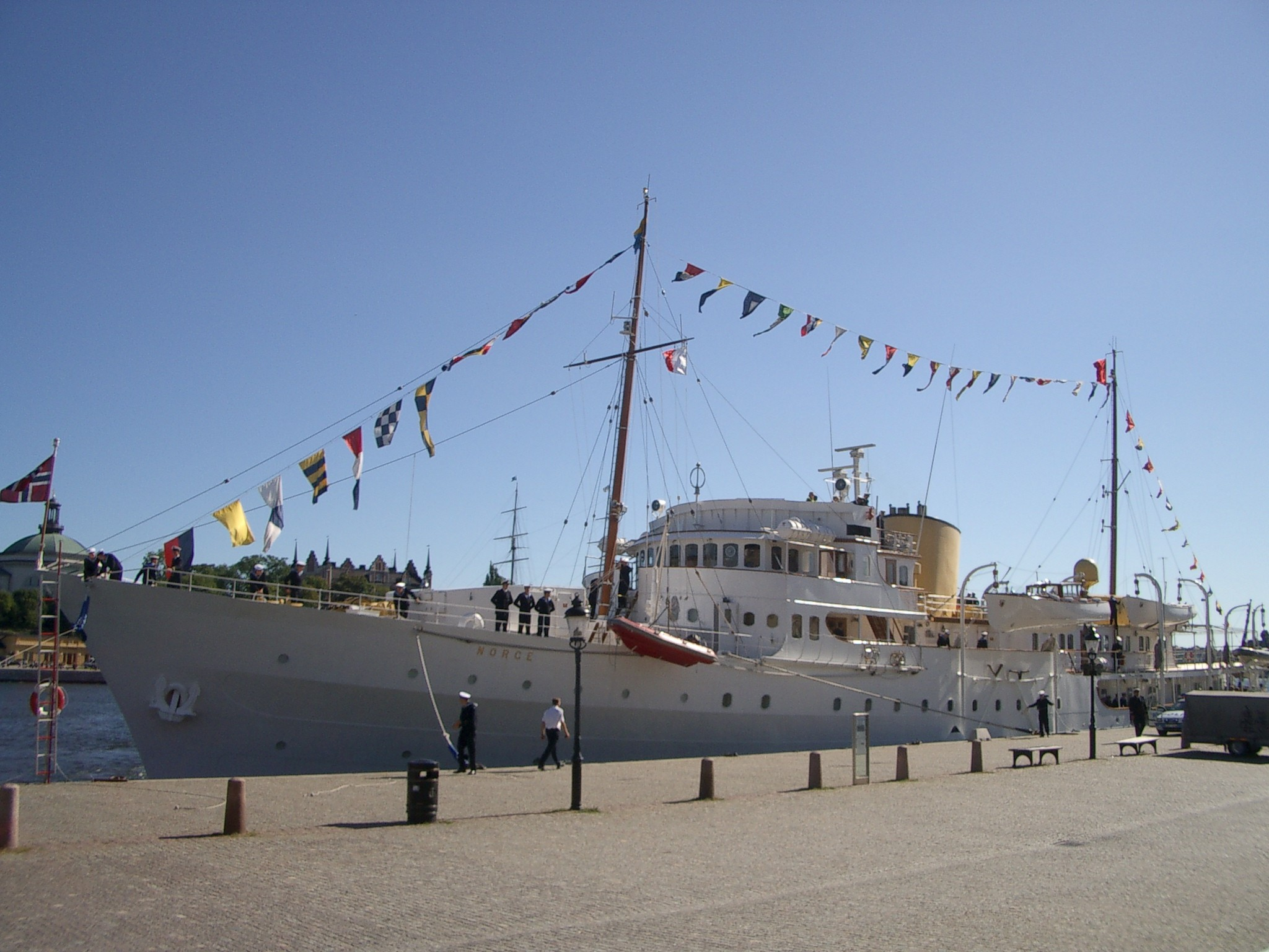 Picture is of the Royal Norwegian Yacht, KS Norge, in Stockholm, September 2005 during the Norwegian Royal family visit. Picture shot at Skeppsbron just by the Stockholm Royal Castle.